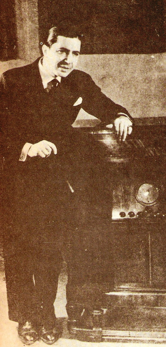 Argentine tango singer, Carlos Gardel, listening himself in a victrola, a grammophone by the Victor Talking Machine Company.